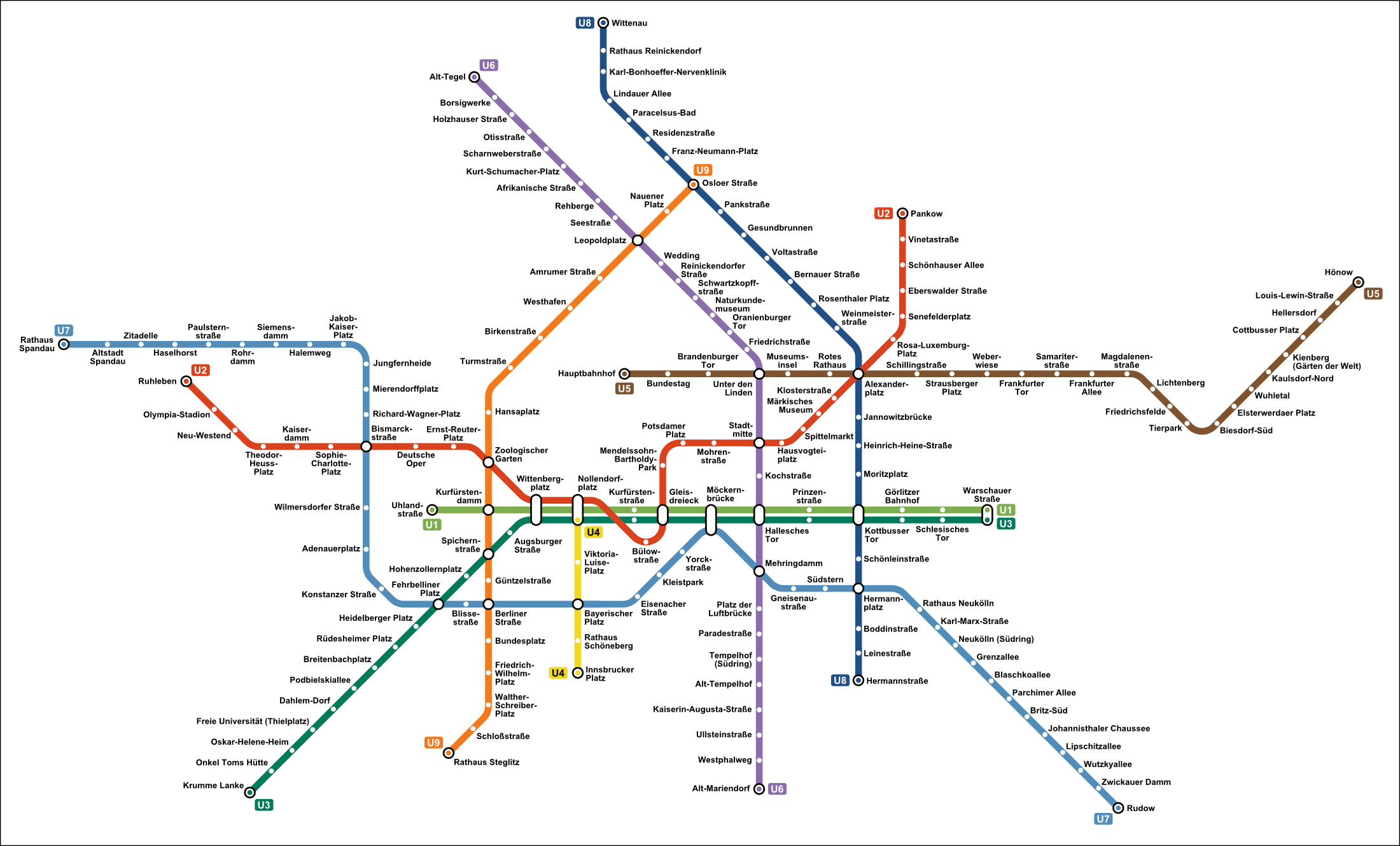 Map of the Berlin U-Bahn